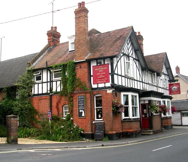 The Greyhound Inn - North Street, Pewsey